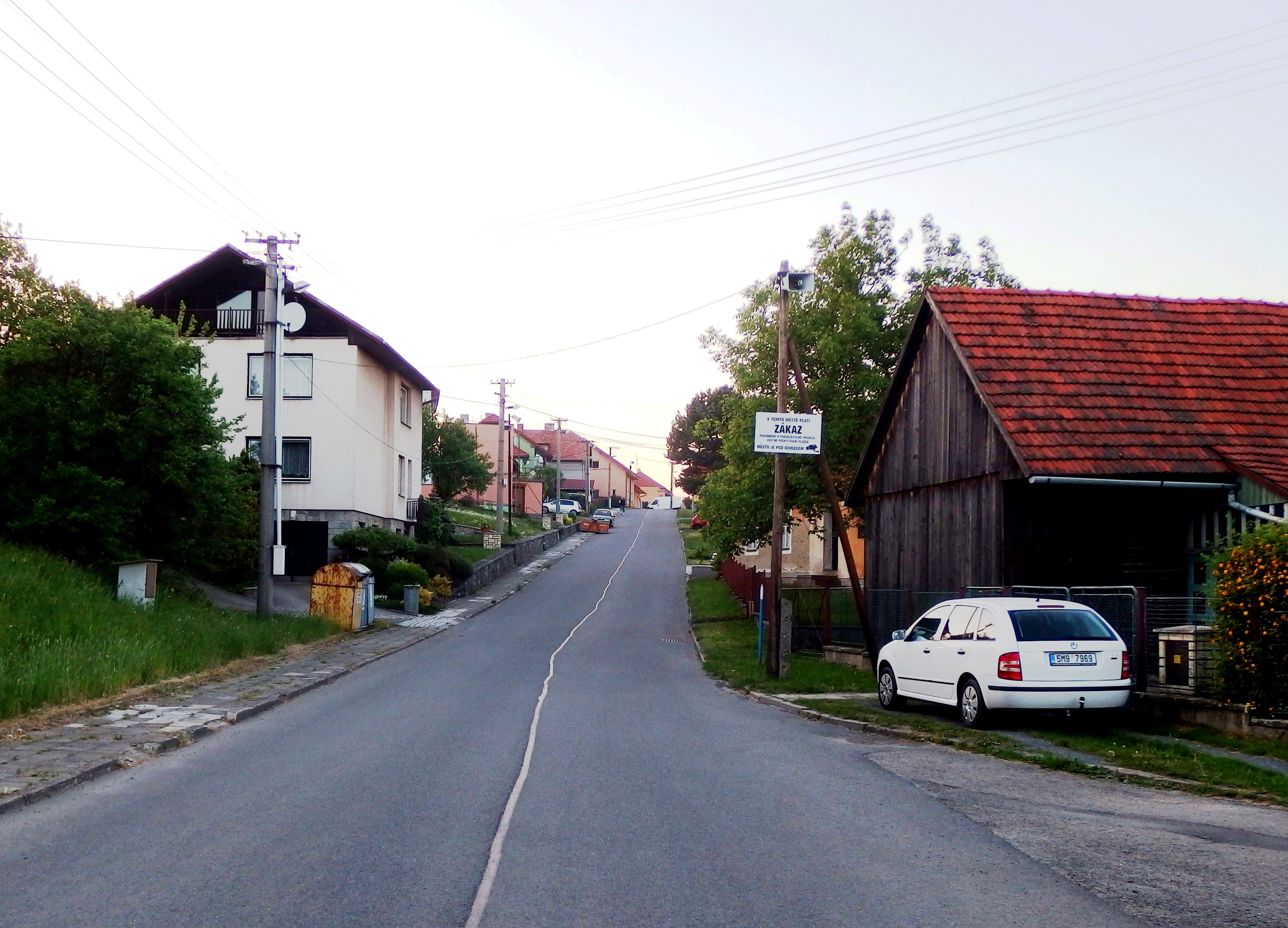 Hranice, Přerov District, Czech Republic, part Valšovice.